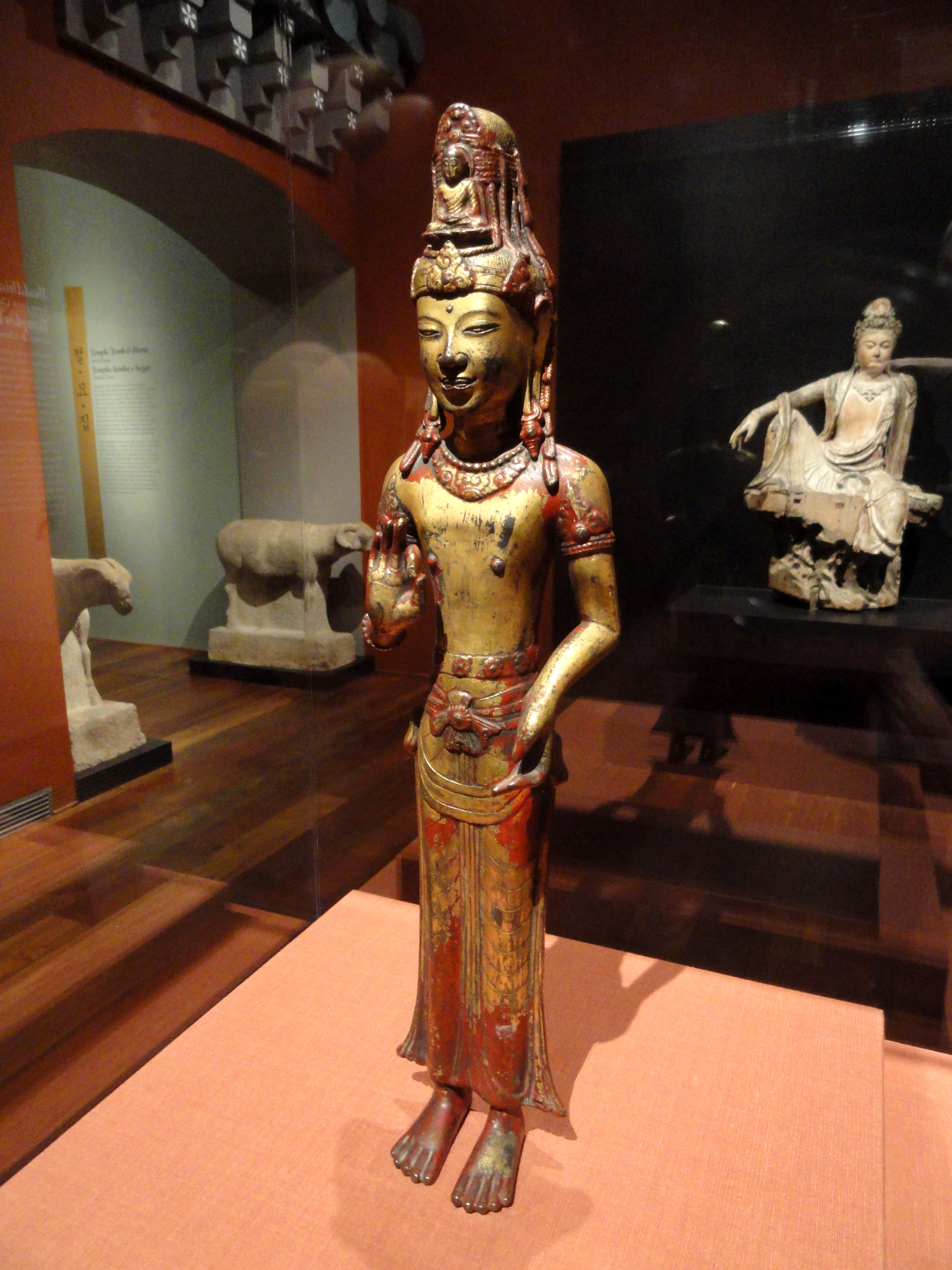 Exhibit in the San Diego Museum of Art, San Diego, California, USA. This artwork is old enough so that it is in the public domain.